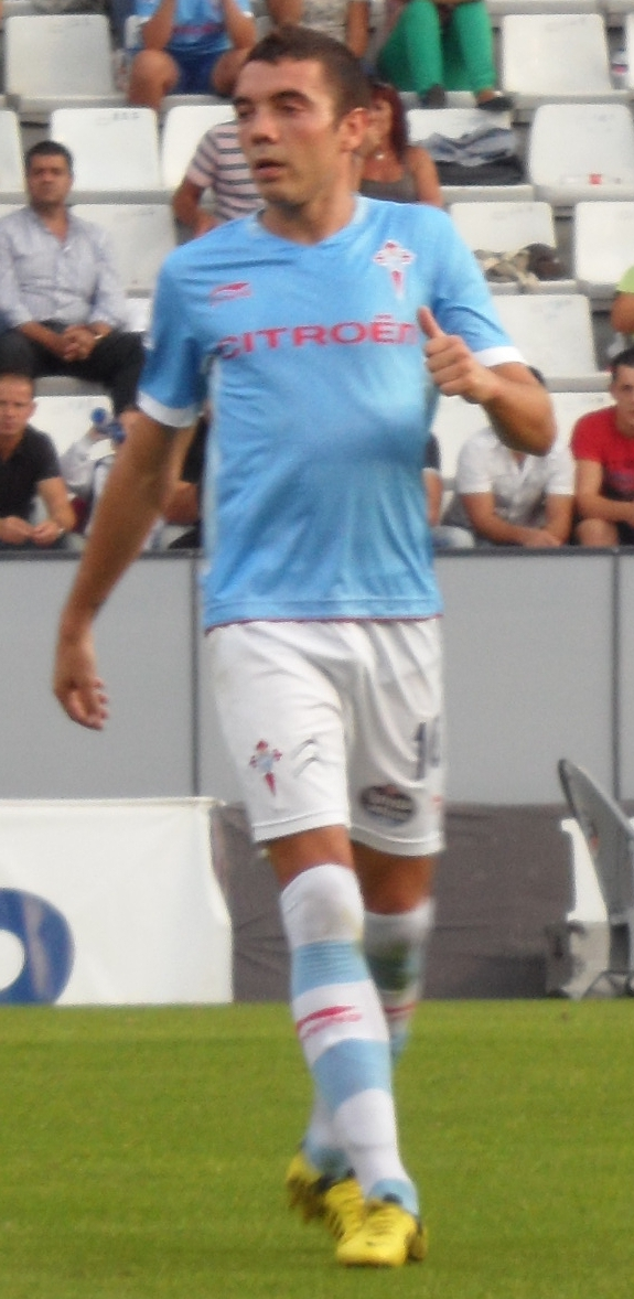 R.C. Celta de Vigo player Iago Aspas pictured on the match between Celta Vigo and Getafe C.F. at Balaídos Stadium on September 22nd., 2012.